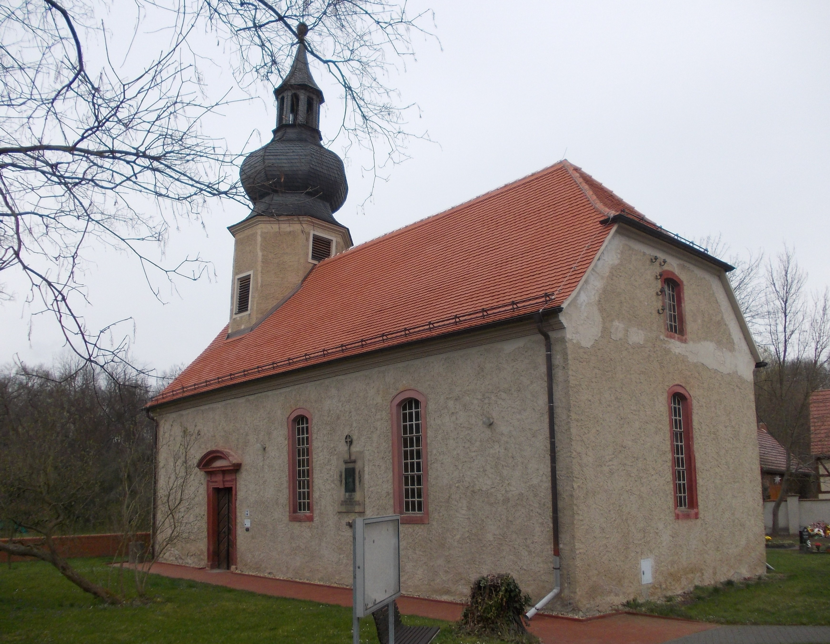 Burgliebenau church (Schkopau, district: Saalekreis, Saxony-Anhalt)